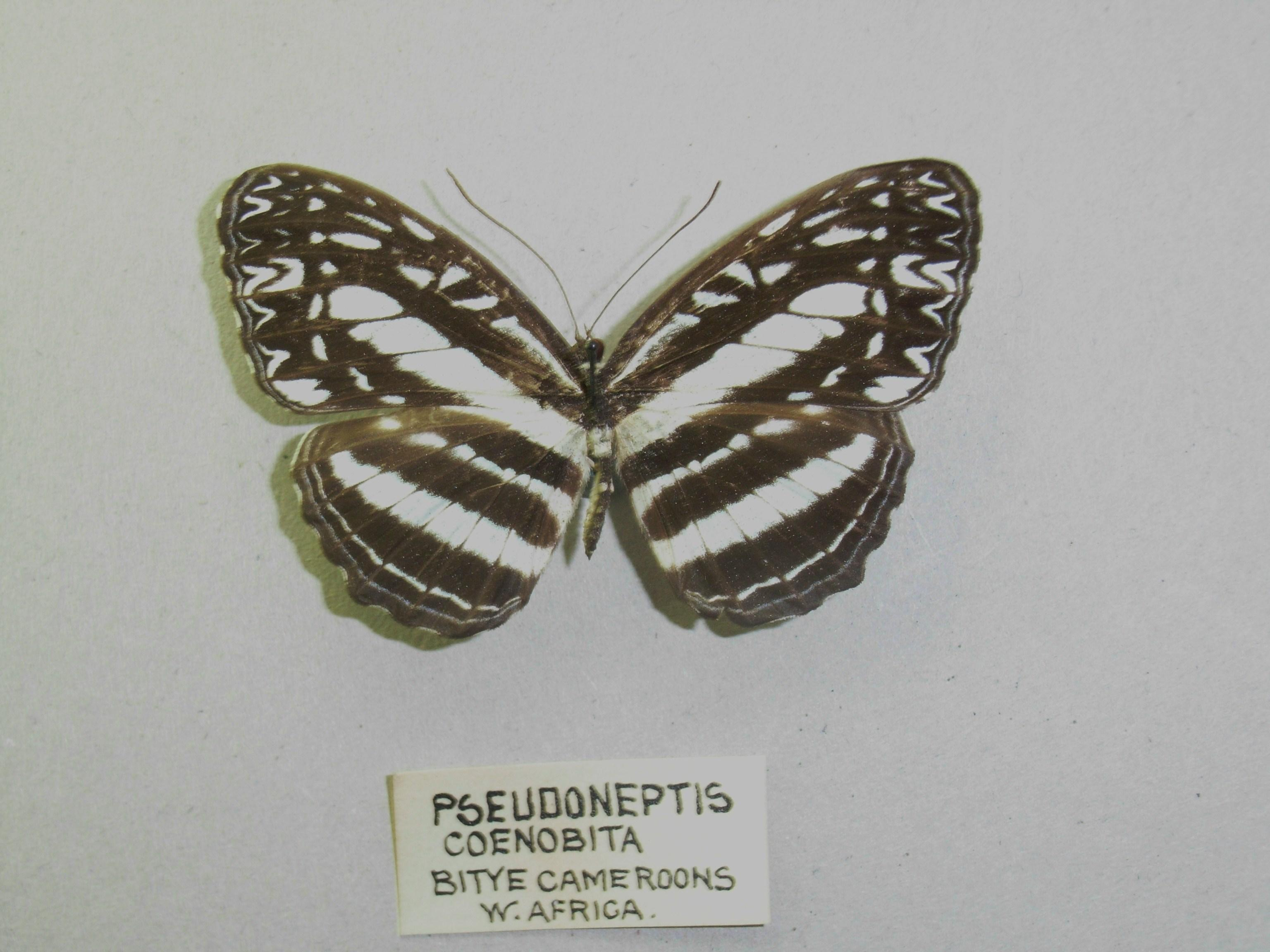 Pseuodoneptis coenobita:Limenitidae:Nymphalidae Valid name Pseudoneptis bugandensis Stoneham, 1935 Blue Sailer